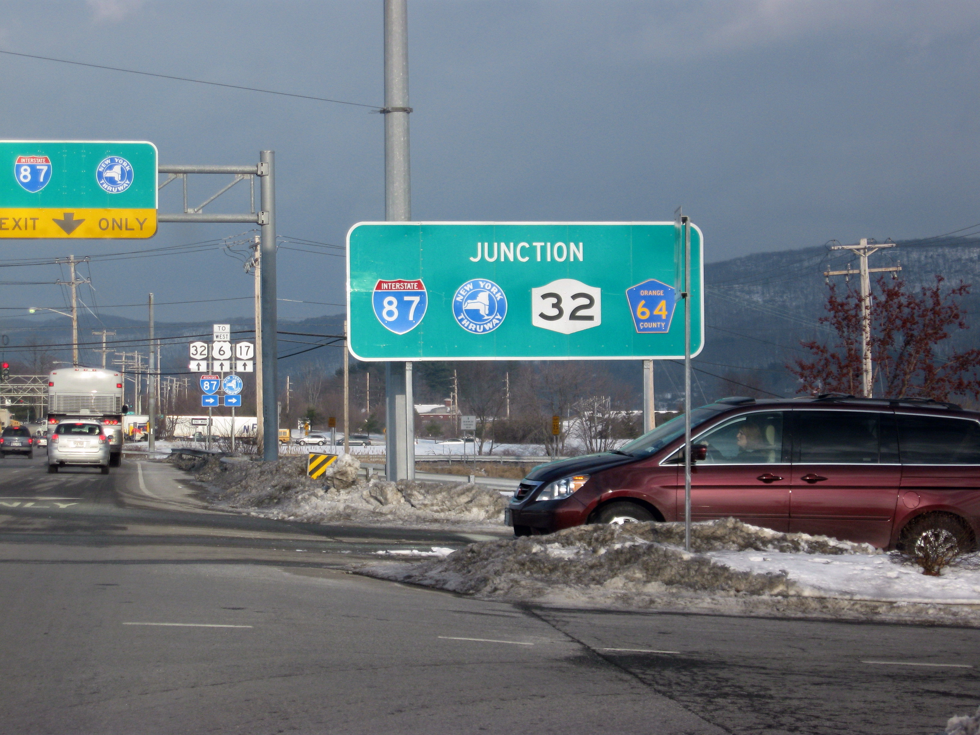 New York State Route 17 as it approaches the interchange with Interstate 87(New York State Thruway), New York State Route 32 and Orange County Road 64 near Woodbury Commons in Woodbury, New York. NY 17 is about to turn west here, and will later join US 6, which it just passed at a partial interchange.